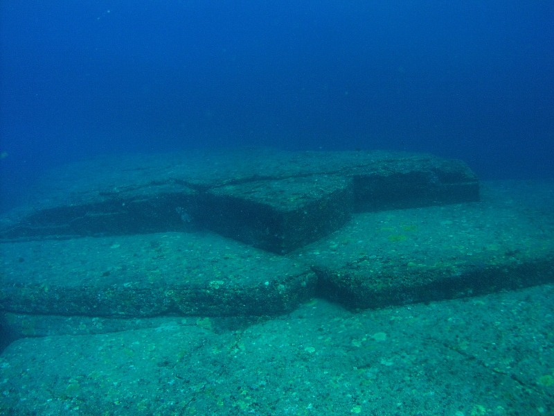 The underwater formation or ruin called "The Turtle" at Yonaguni, Ryukyu Islands.